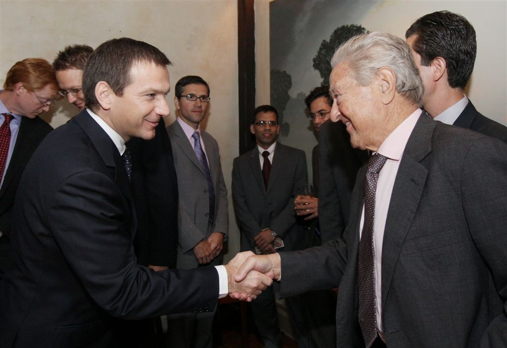 Bajnai has met George Soros in New York